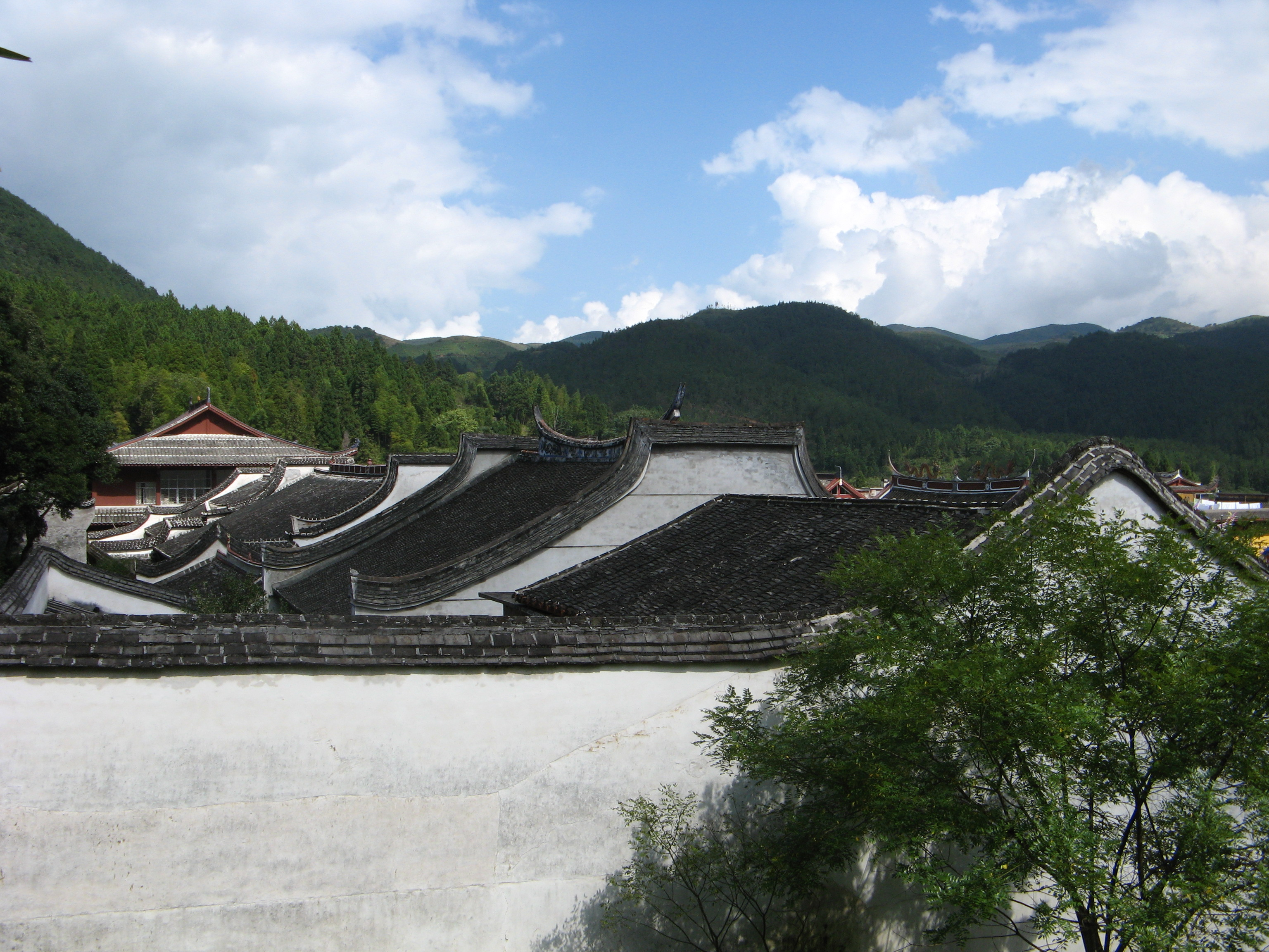 Building cluster in Xuefeng Temple, Minhou, Fuzhou